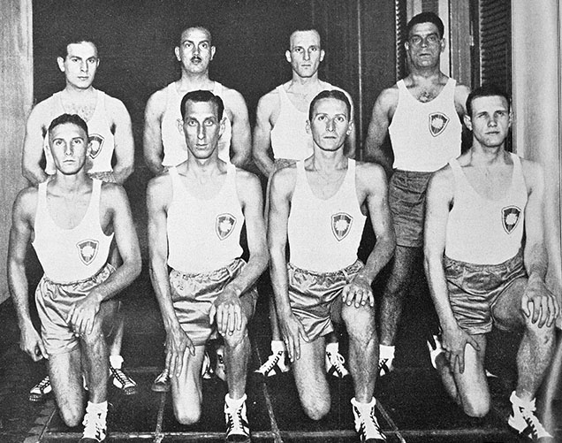 The Brazil national basketball team that played the 3rd South American championship held in Buenos Aires.